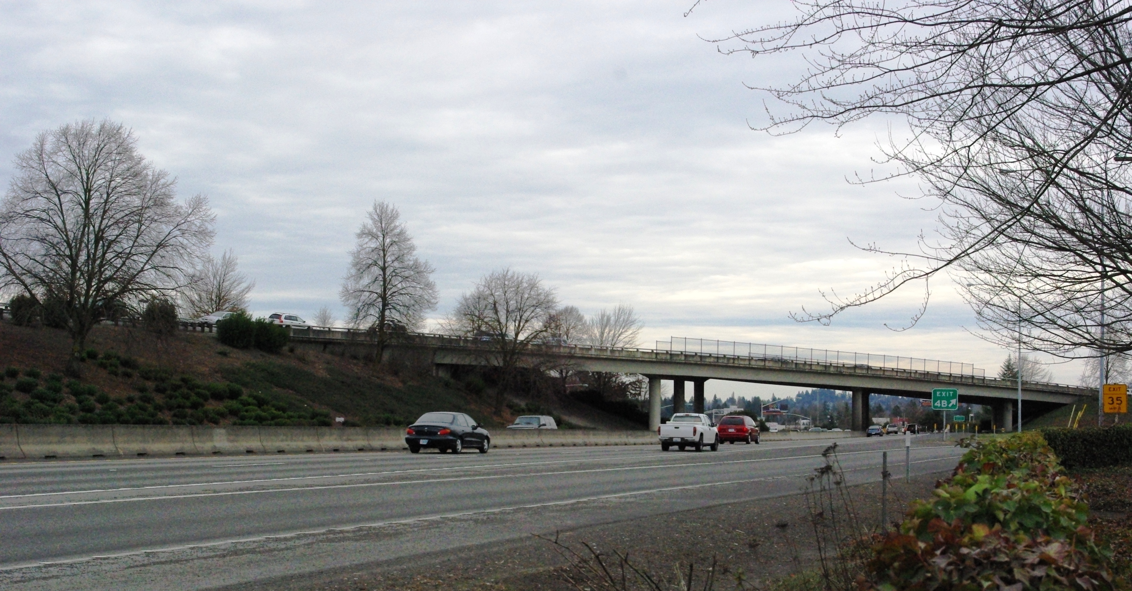 Oregon Route 217 between Beaverton and Tigard at 210 overpass